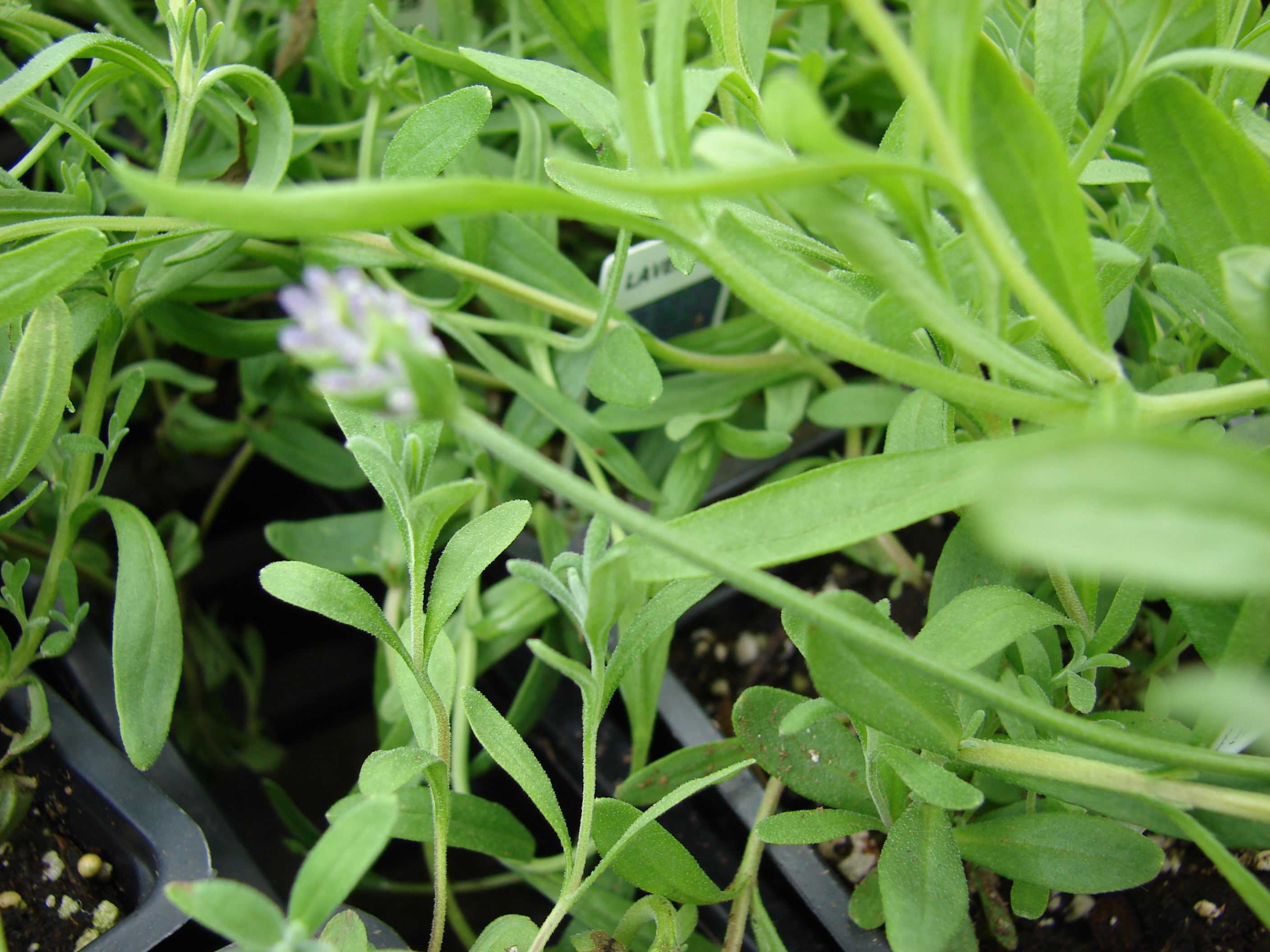 Lavandula angustifolia (flower and leaves). Location: Maui, Kula Ace Hardware and Nursery